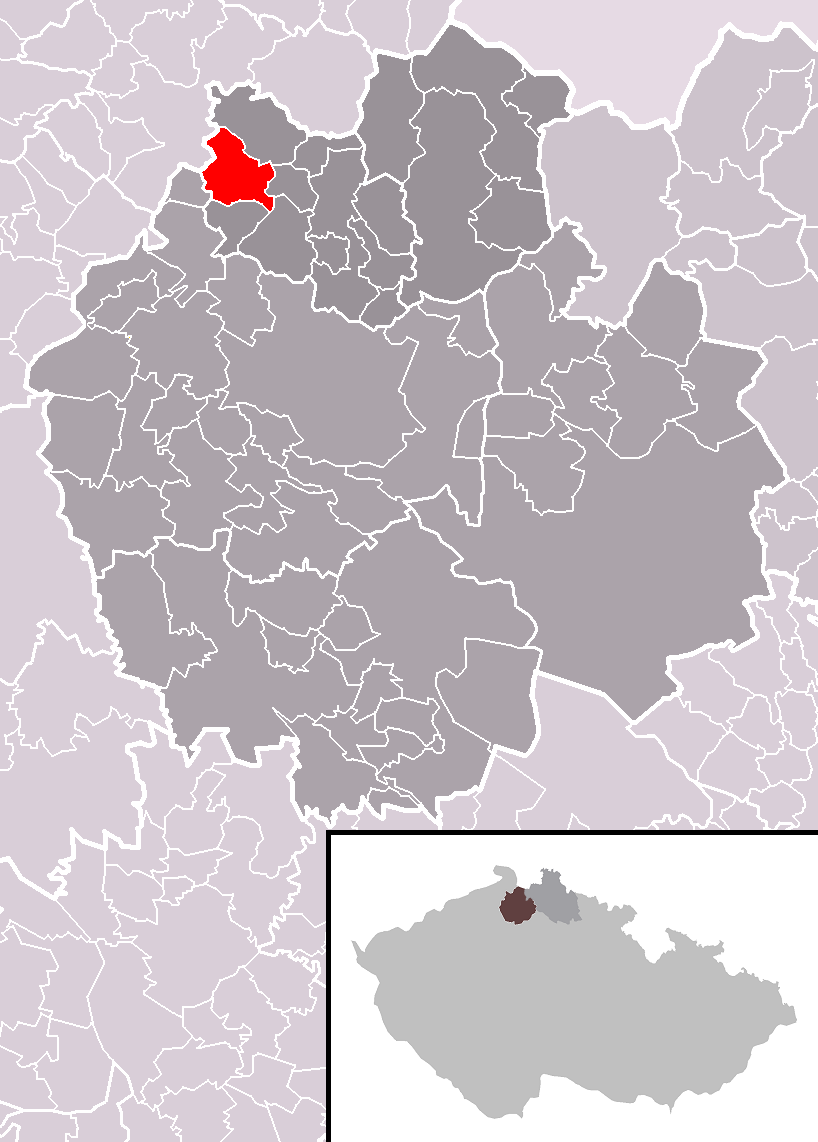 Location of Kamenický Šenov town within Česká Lípa District and administrative area of Nový Bor as a Municipality with Extended Competence.